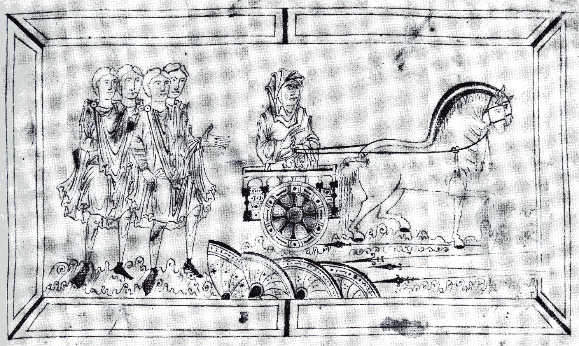 10th century Anglo-Saxon illustration of a two-horse chariot, in a copy of Prudentius's Psychomachia